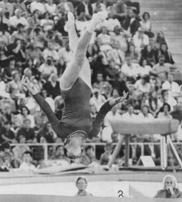 LG11 1972 Wire Photo MARCELA VACHOVA Czech Womens Gymnastics Munich Olympics